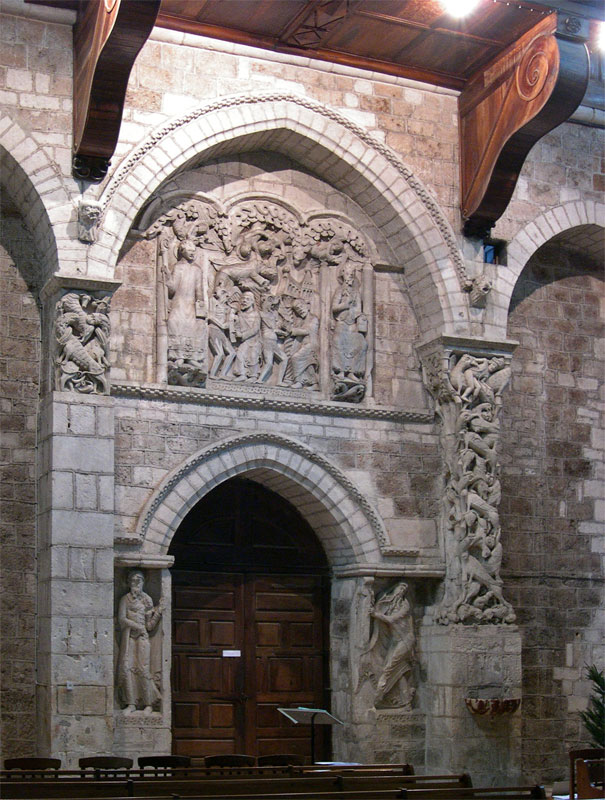 Souillac abbey. France.